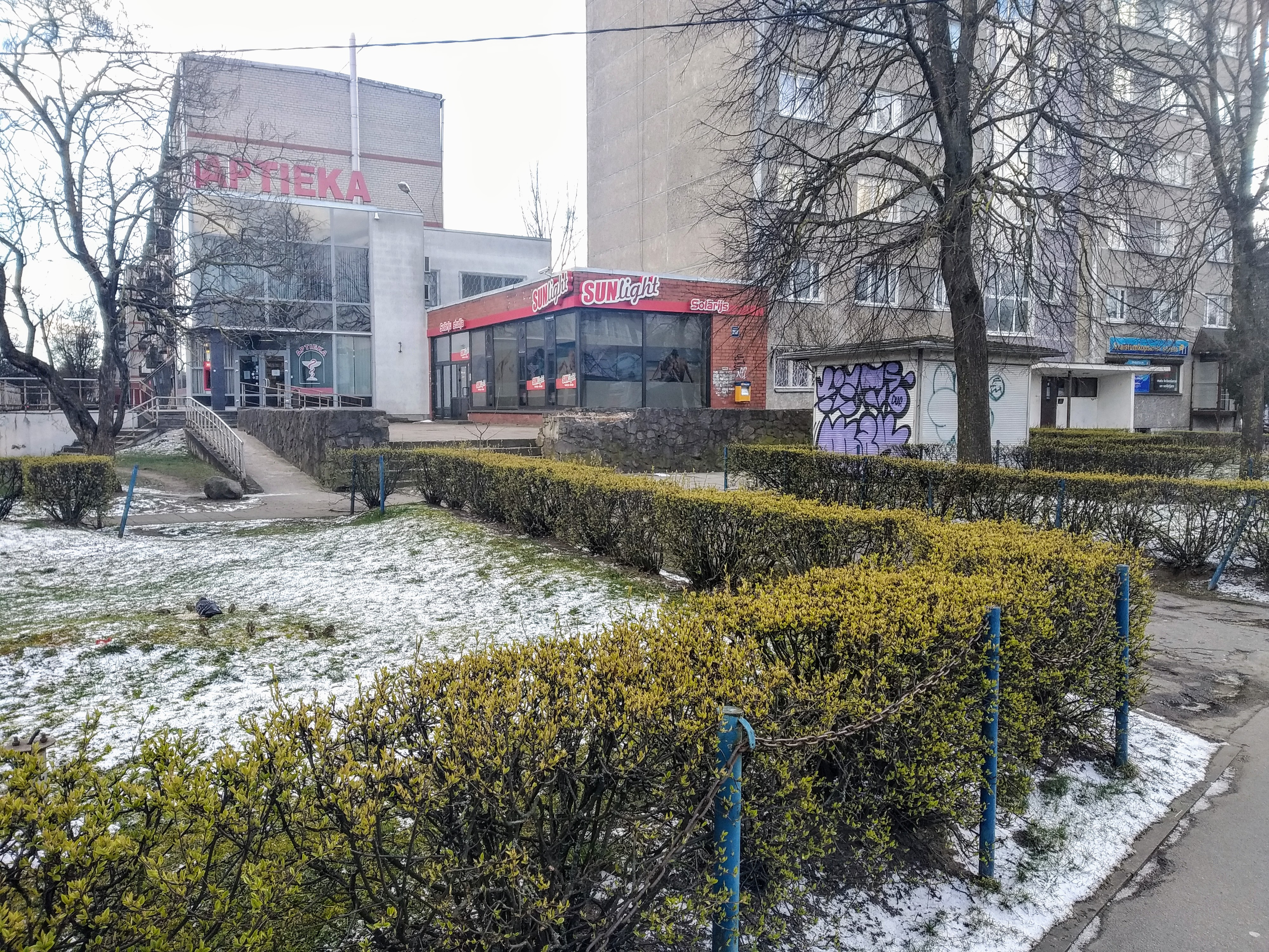 Kengarags, first snow in Riga